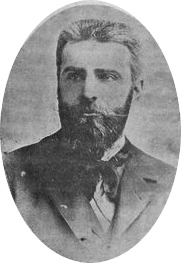 Ahmed Rıza Bey (1858 – 26 February 1930) (Scanned image)